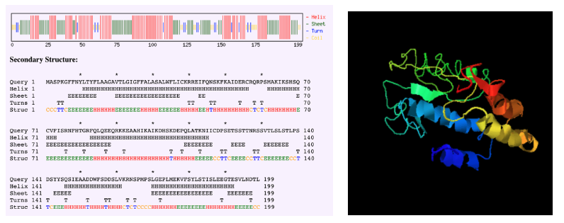 itasser+cffsp_c1orf185